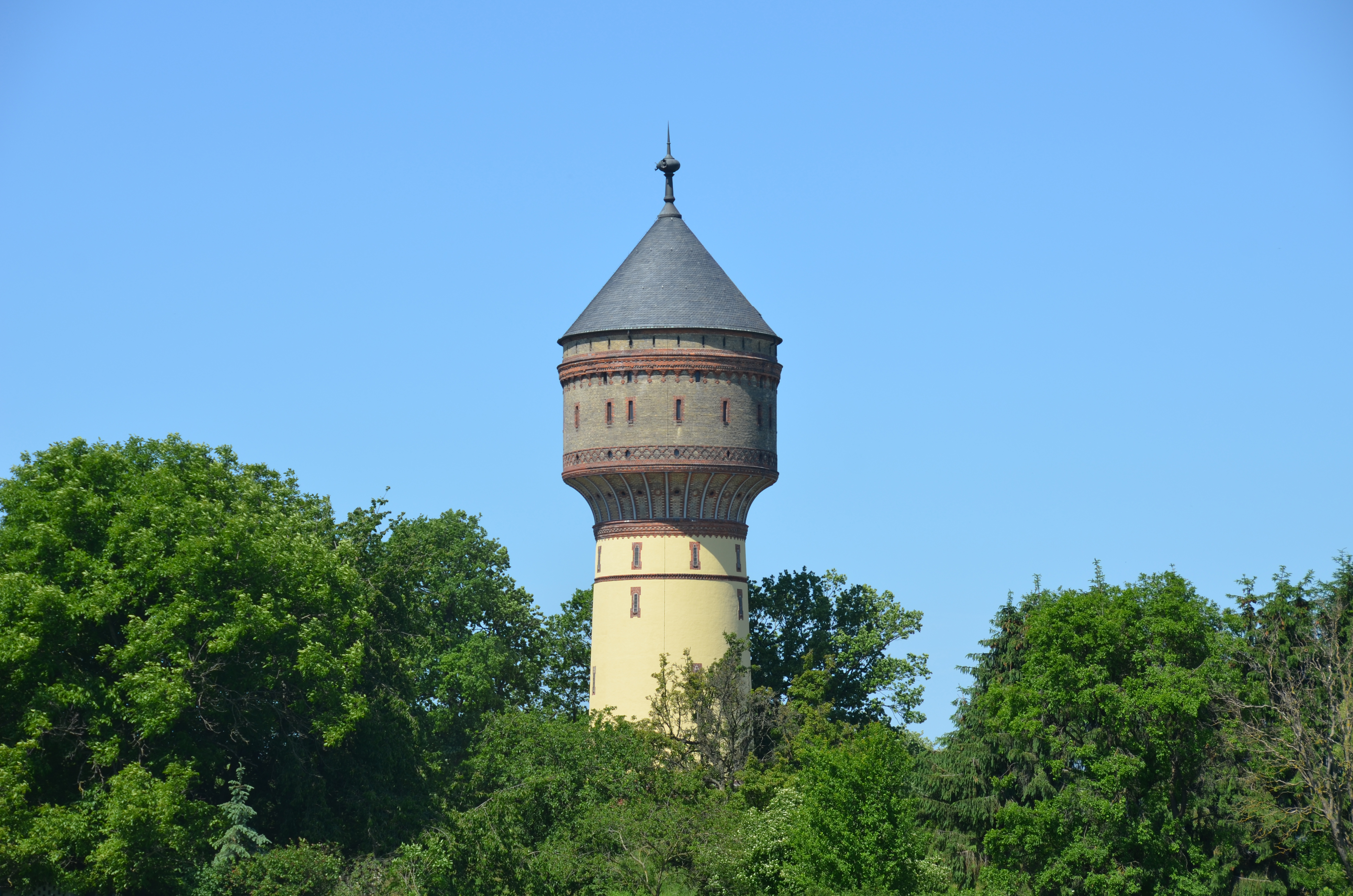 Water tower in Lippstadt, Germany